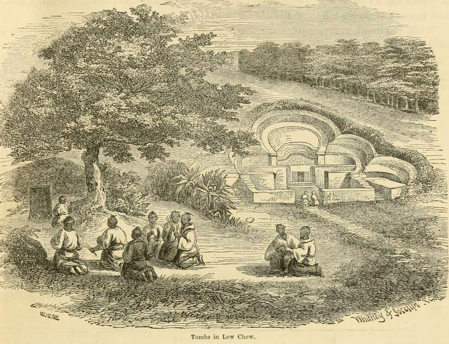 "Tomb in Lew Chew", M.C. Perry, Narrative of the expedition of an American squadron to the China Seas and Japan